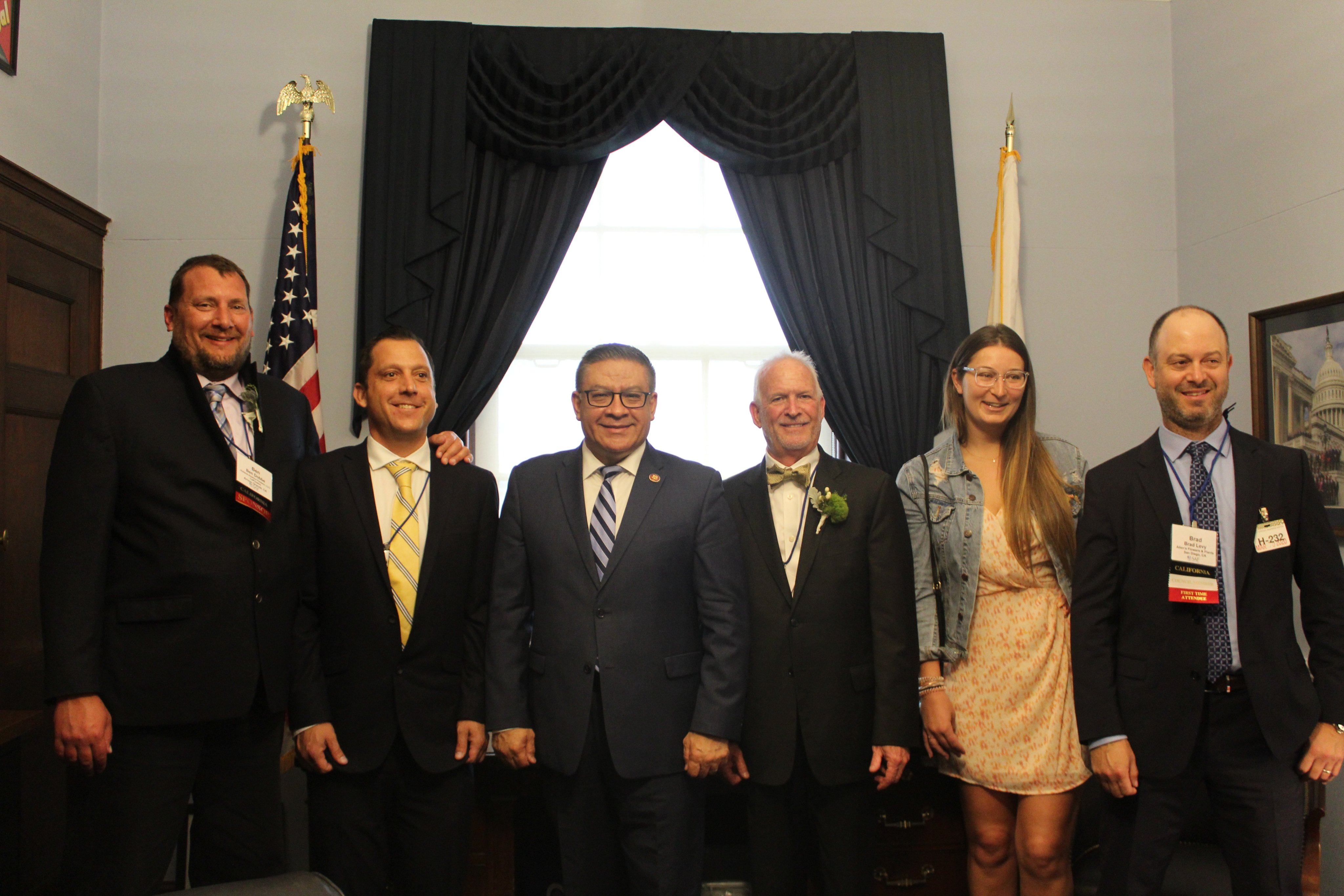 Great meeting with @safdelivers and discussing how I can support America's flower industry. CA24 is home to world-class flower growers. As co-chair of the Congressional Cut Flower Caucus, I'll continue working to support those who make our world a more beautiful place!